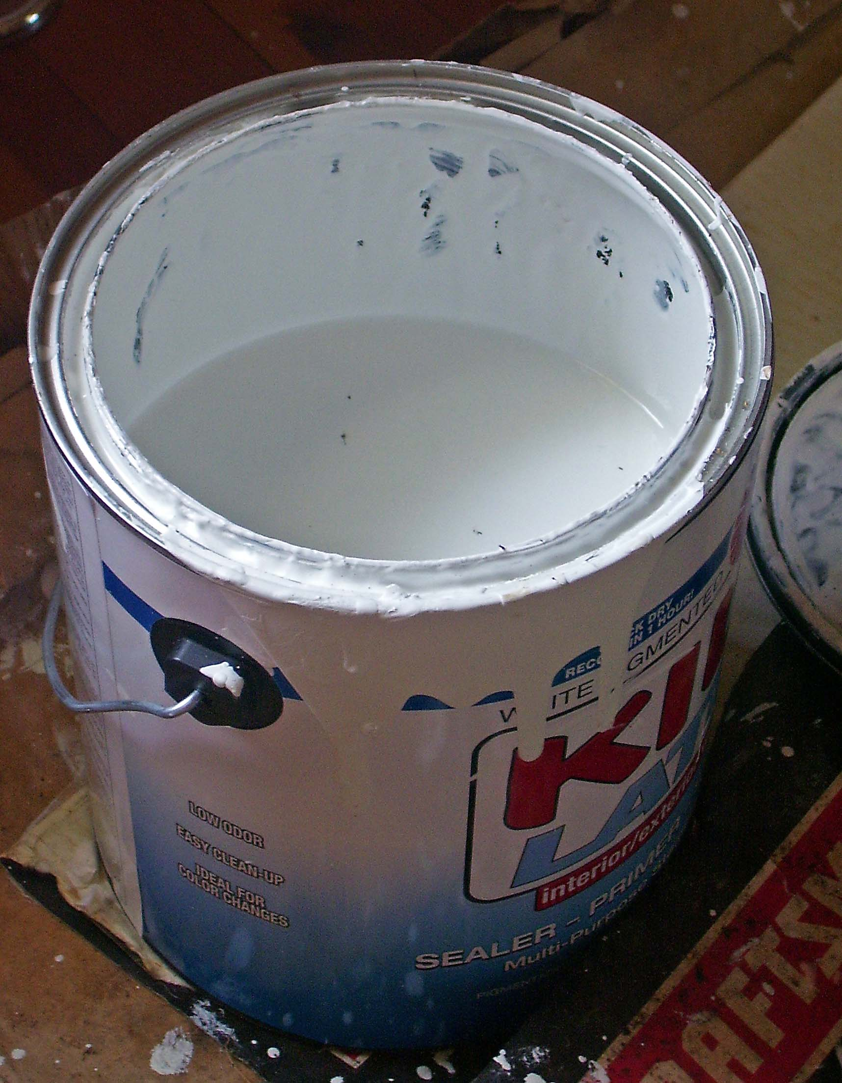 Kilz brand White primer in a bucket, shot while I was putting it on some replastering in our house.